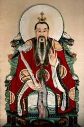 A painting of the Lingbao Tianzun ('the Heavenly Lord of the Numinous Treasure'), one of the supreme divinities of Daoism.